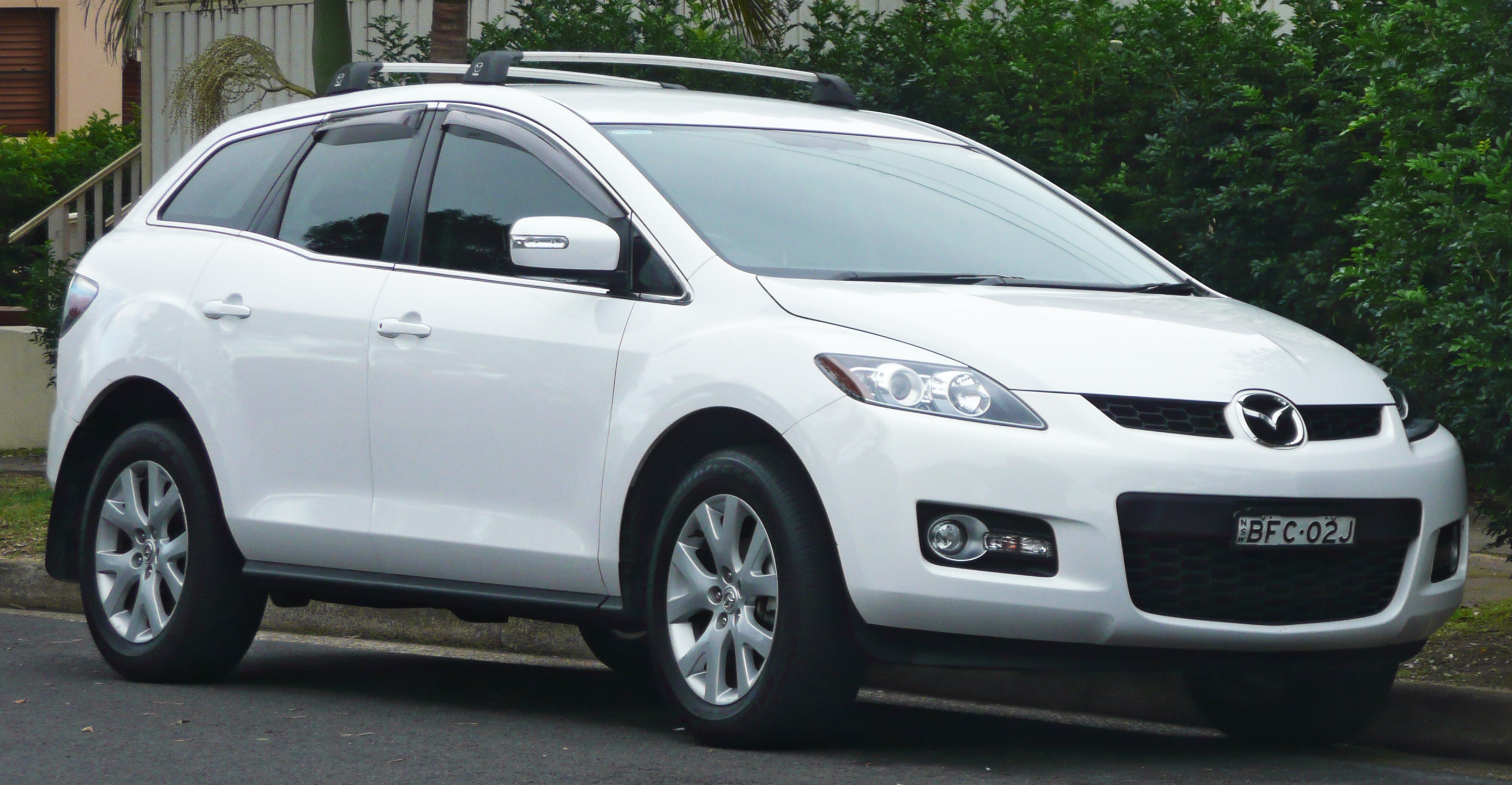 2006–2009 Mazda CX-7 (ER) Classic wagon. Photographed in Cronulla, New South Wales, Australia.